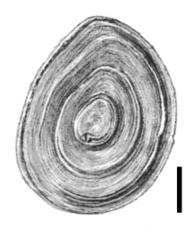 Drawing of an operculum of Bithynia transsilvanica, synonym: Bithynia troschelii. Scale bar is 1 mm.